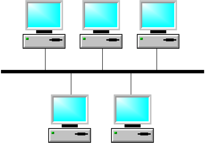 A Diagram of Bus Network Topology created in Microsoft Visio